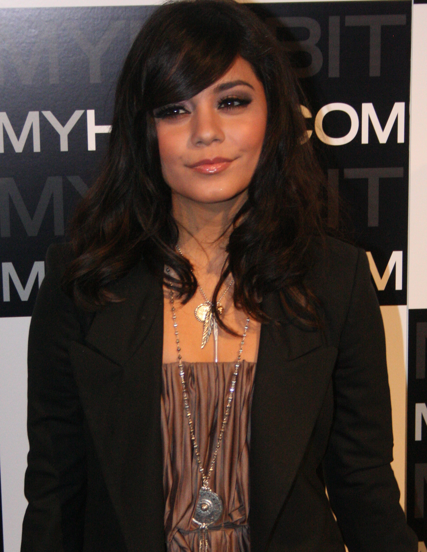 Vanessa Hudgens at the My Habit launch at Skylight West Studios in May 2011